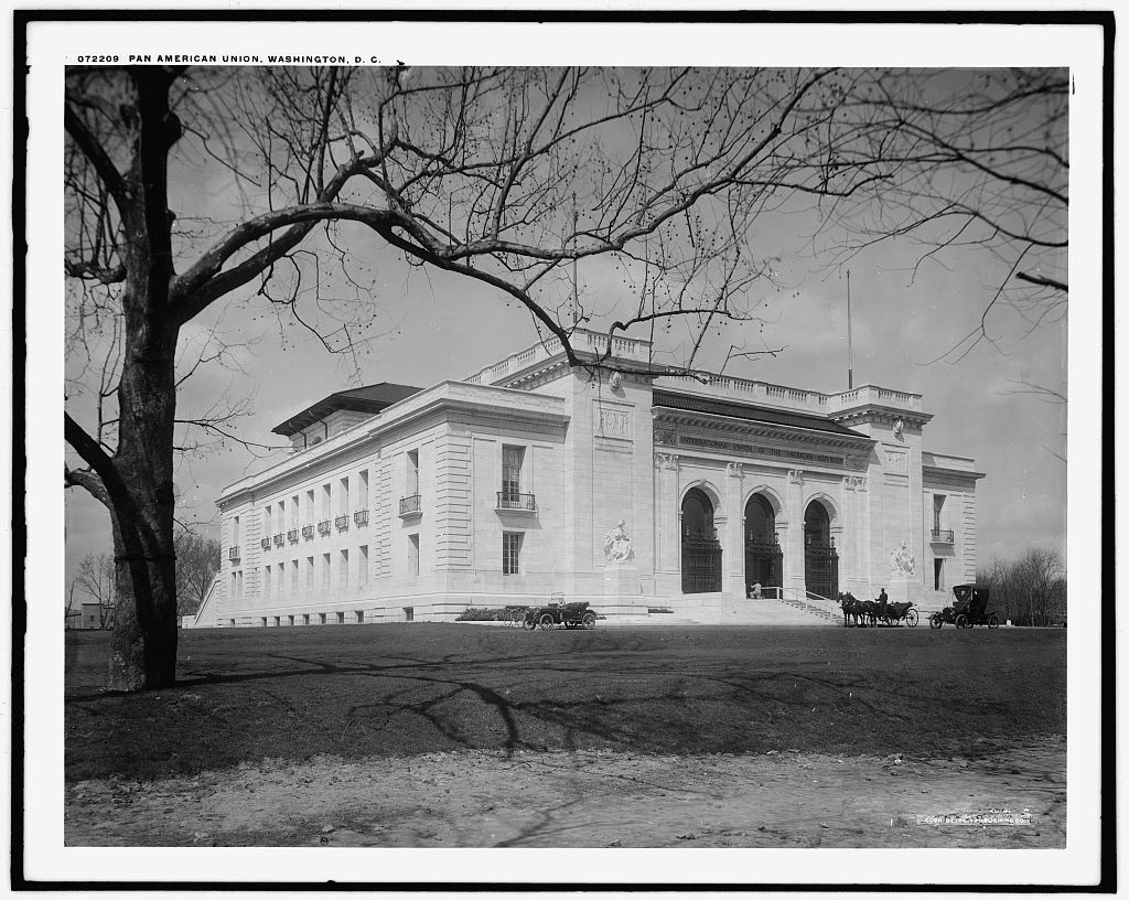 Pan american union building between 1910 and 1920